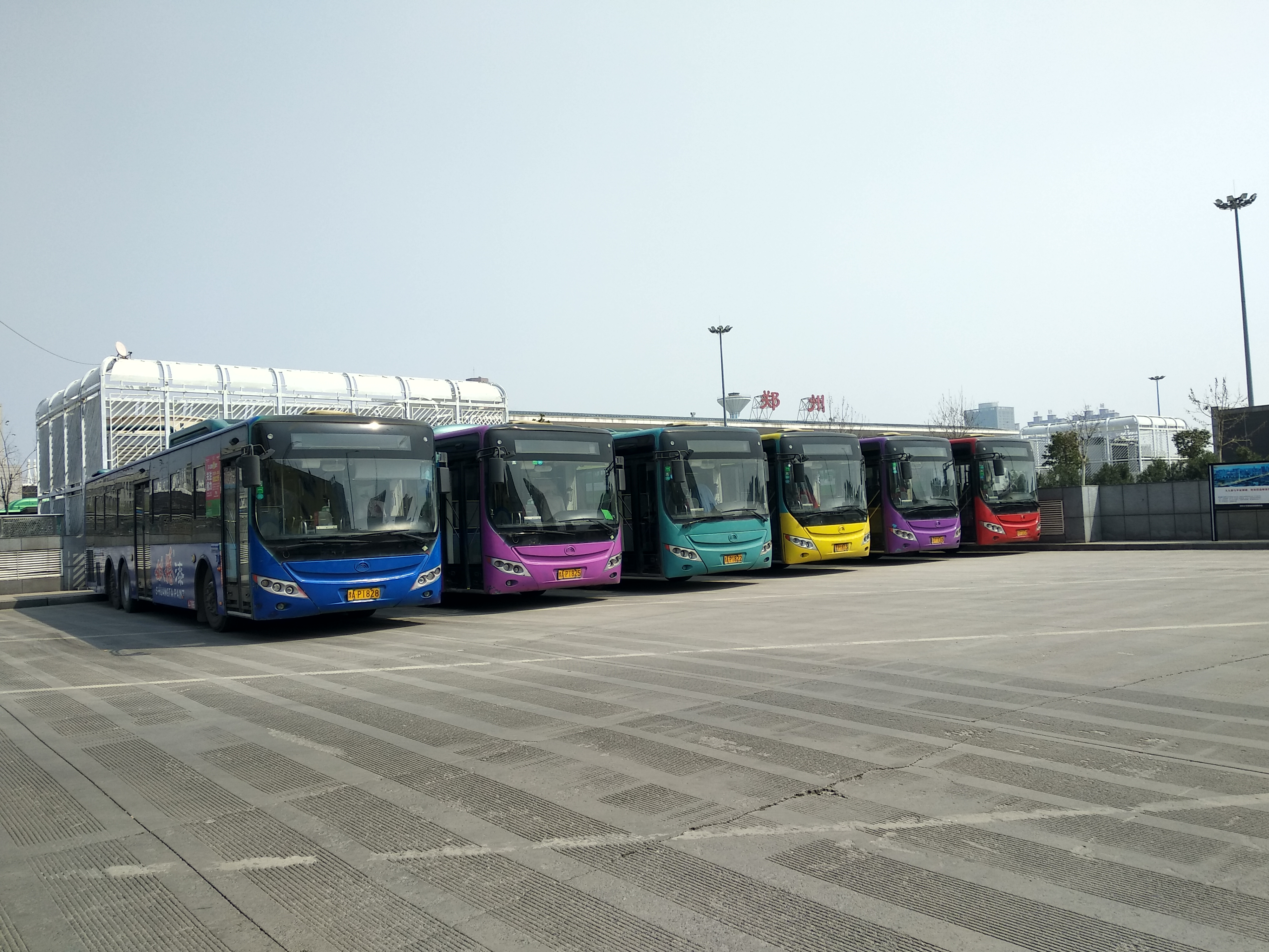 Powered by LNG and electricity, these 13.7-meter buses are common on Zhengzhou Bus Route 985.